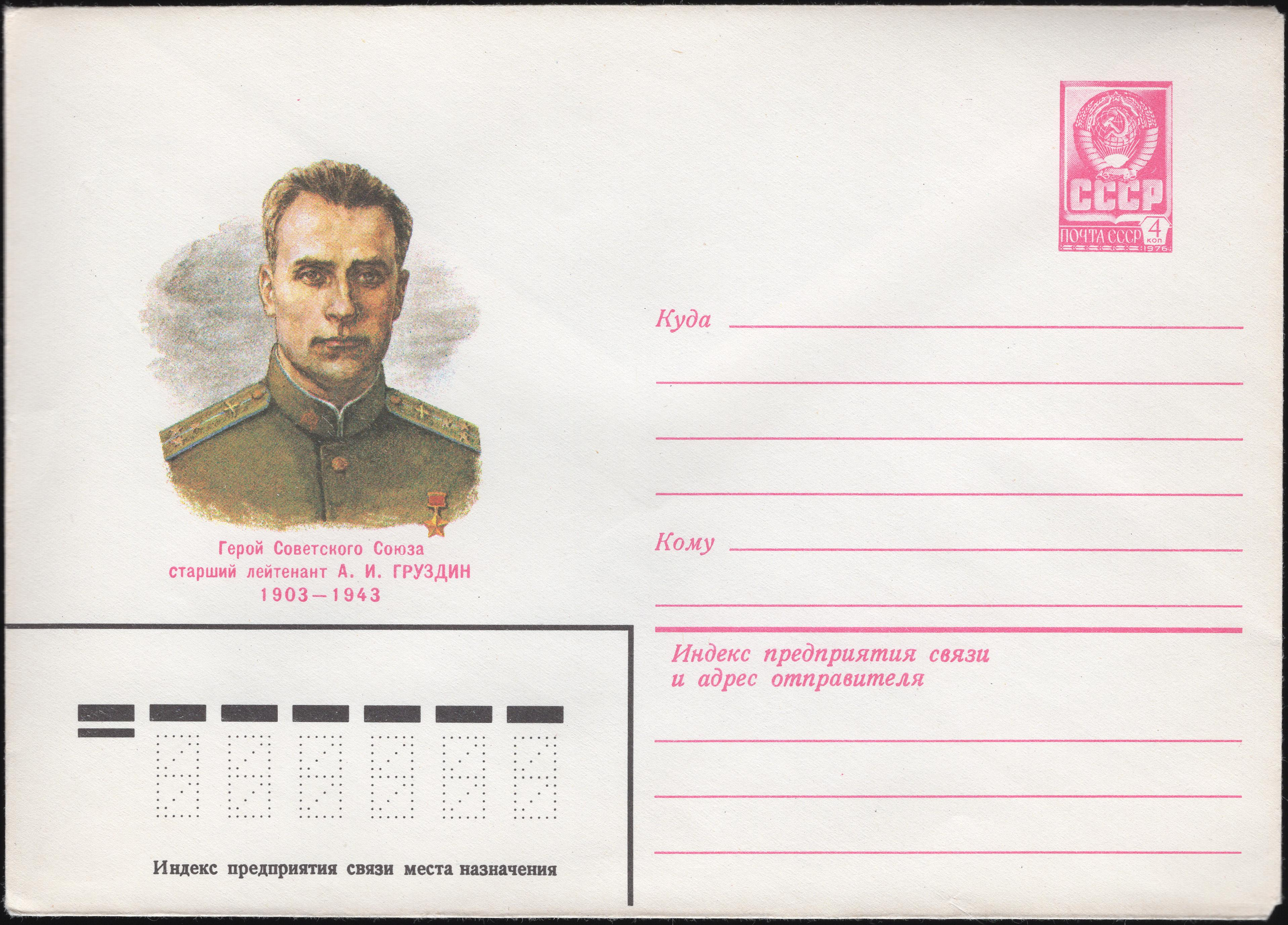 Hero of the Soviet Union Senior lieutenant Aleksandr Gruzdin. 1903-1943. Series: Heroes of the Soviet Union. Artist Ignatyev N.